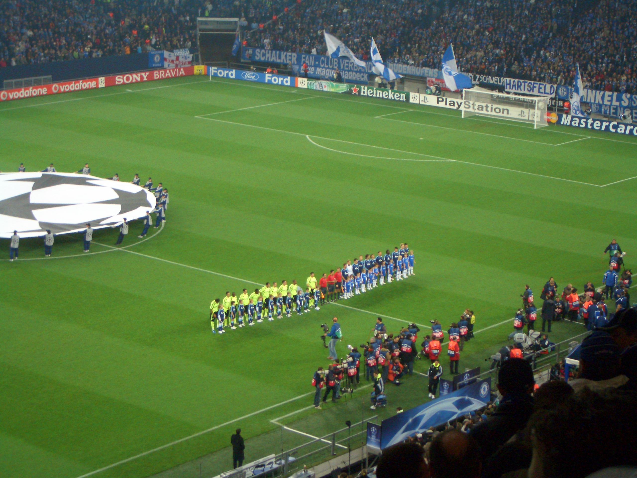 Champiosn League 2007-08 match between Schalke 04 and Chelsea FC, in the Veltins Arena. Result was 0-0.